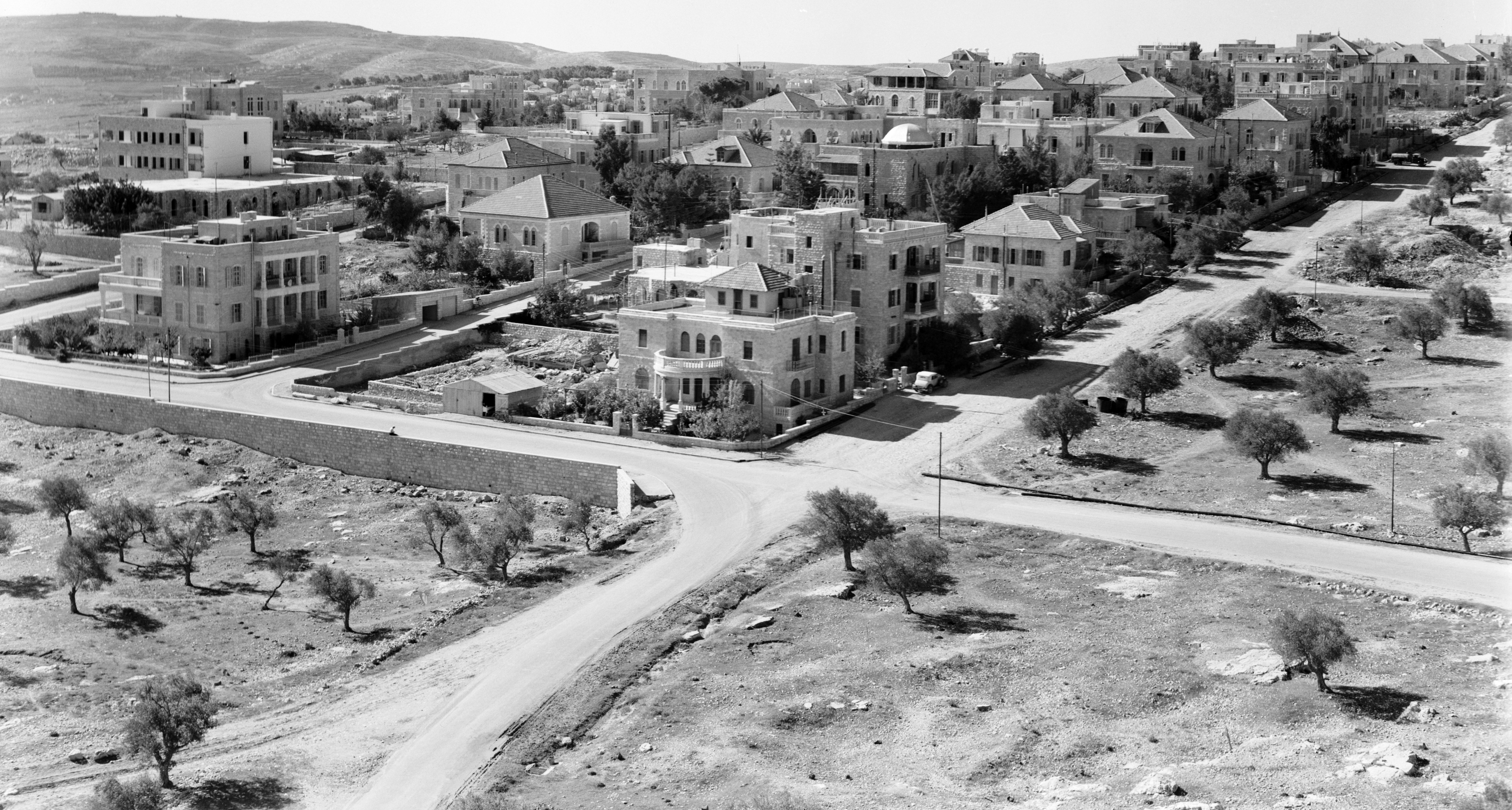 Newer Jerusalem and suburbs. Talbieh, a Christian Arab community